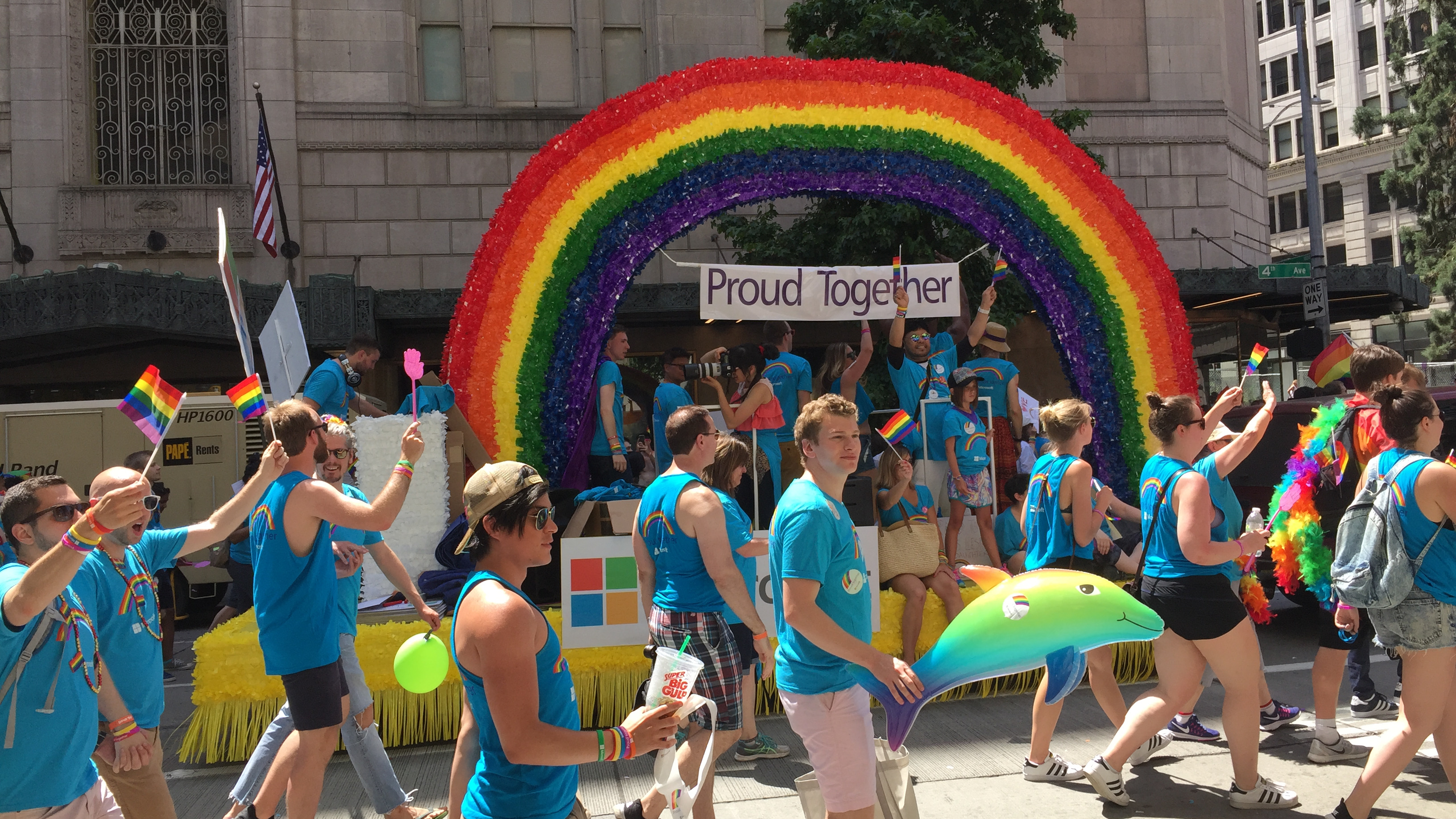 Microsoft's float at Seattle pride 2017. Photo taken as part of Wiki Loves Pride 2017 中文（香港）: 微軟於2017年西雅圖LGBT驕傲遊行的遊行隊伍。